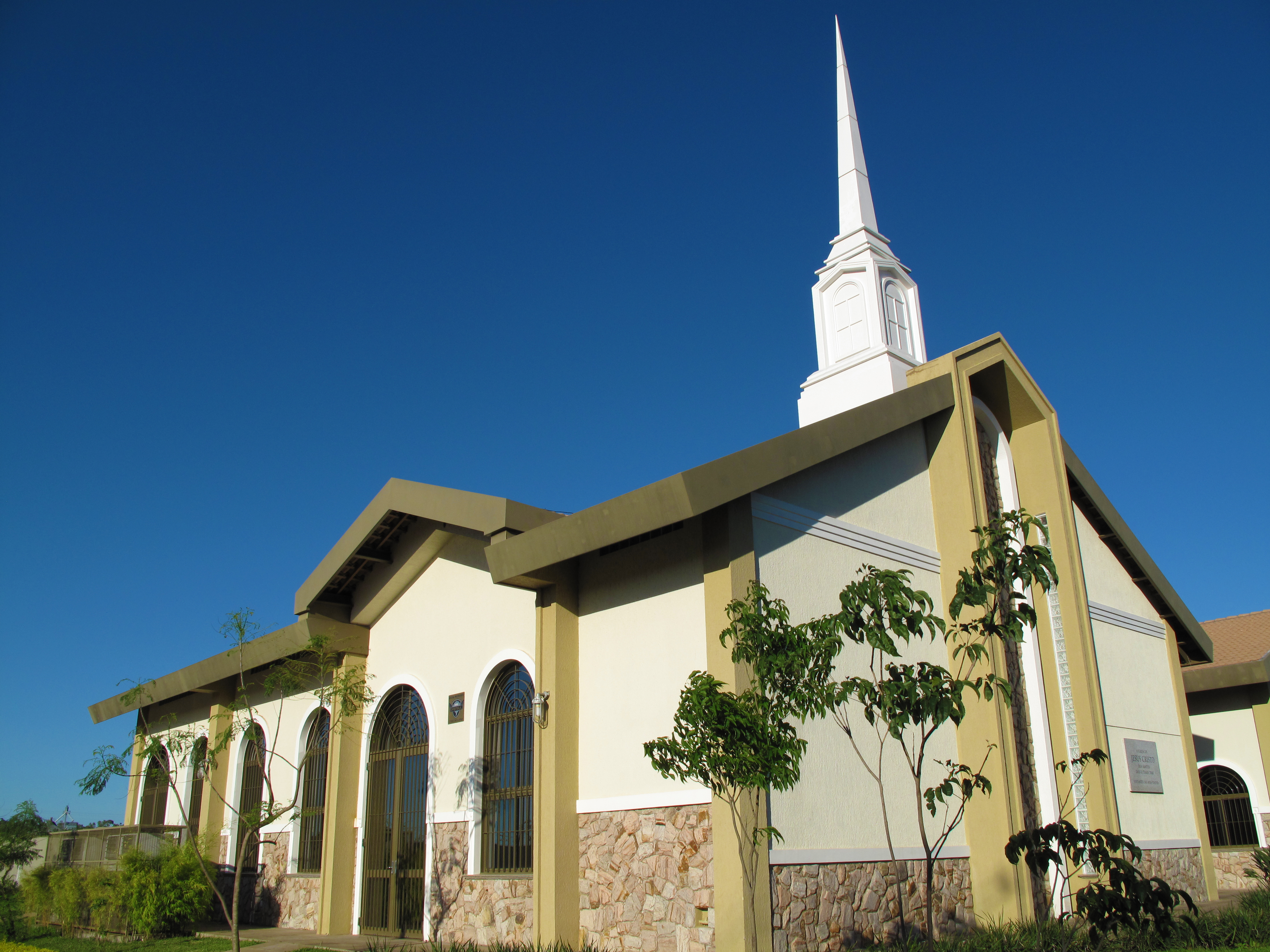 A meetinghouse of The Church of Jesus Christ of Latter-day Saints in Uruguaiana, Rio Grande do Sul, Brazil (on the Argentine border) - November 9, 2009